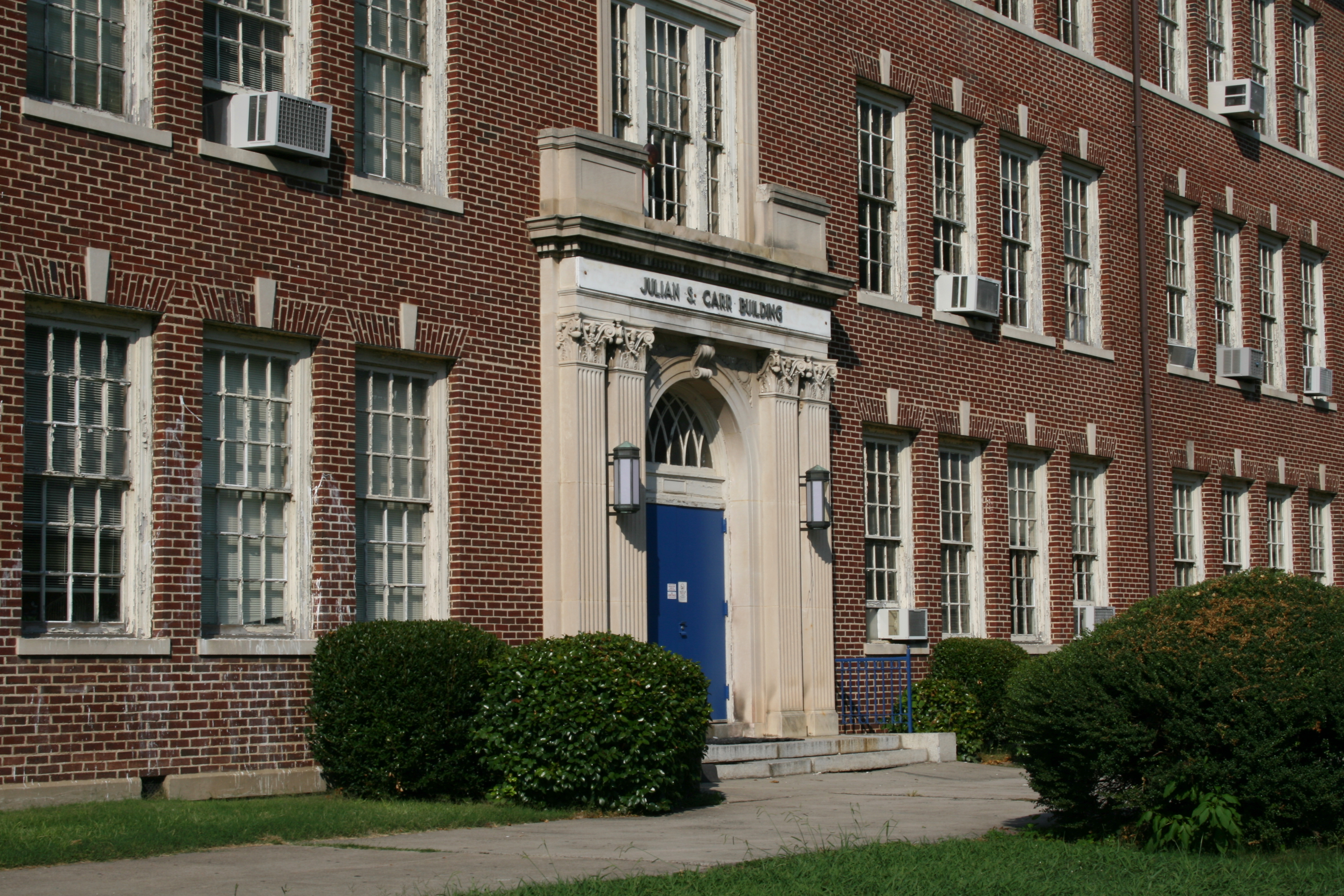 Entrance of the Julian S. Carr Building at the Durham School of the Arts (DSA) in Durham, North Carolina.